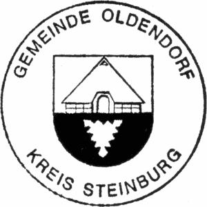 Seal of the municipality Oldendorf in Schleswig-Holstein, Germany